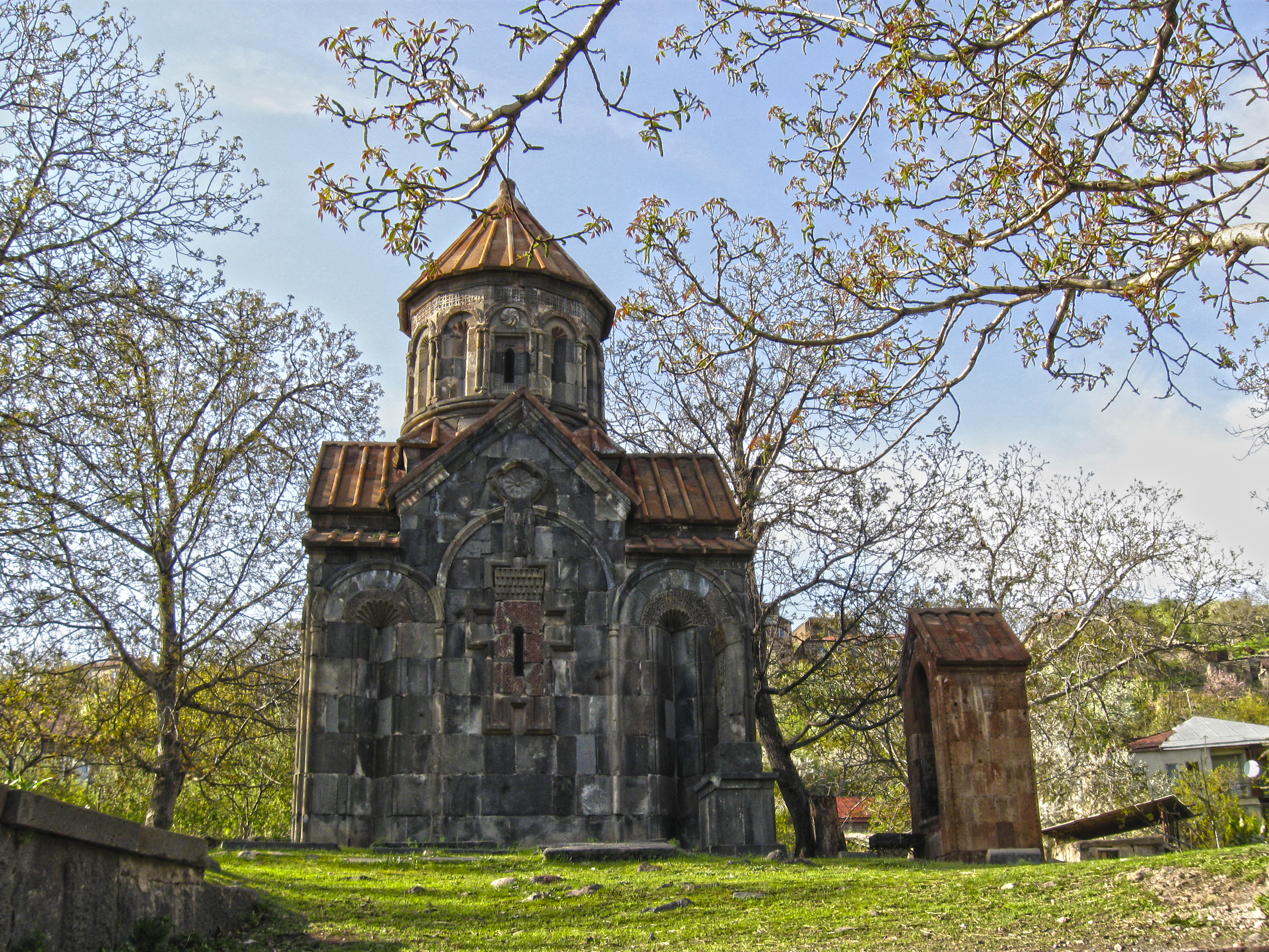 Mashtots Hayrapet church. 21/14